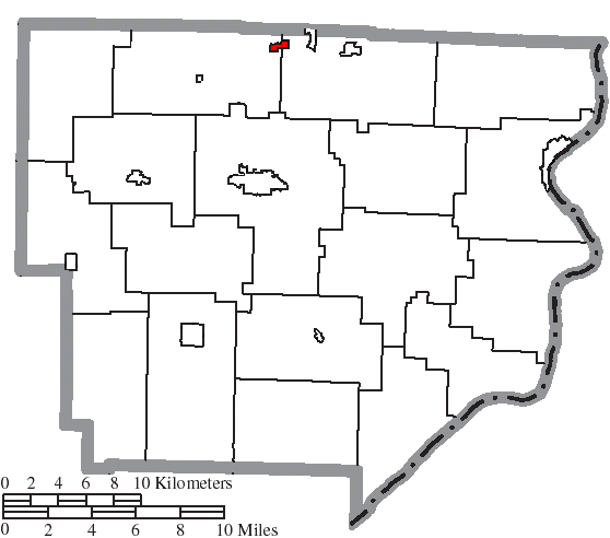 Map of the municipal and township boundaries of Monroe County, Ohio, United States, as of the 2000 census, with the location of the village of Jerusalem highlighted. Township borders are shown only in unincorporated areas in order to differentiate incorporated and unincorporated areas more clearly.